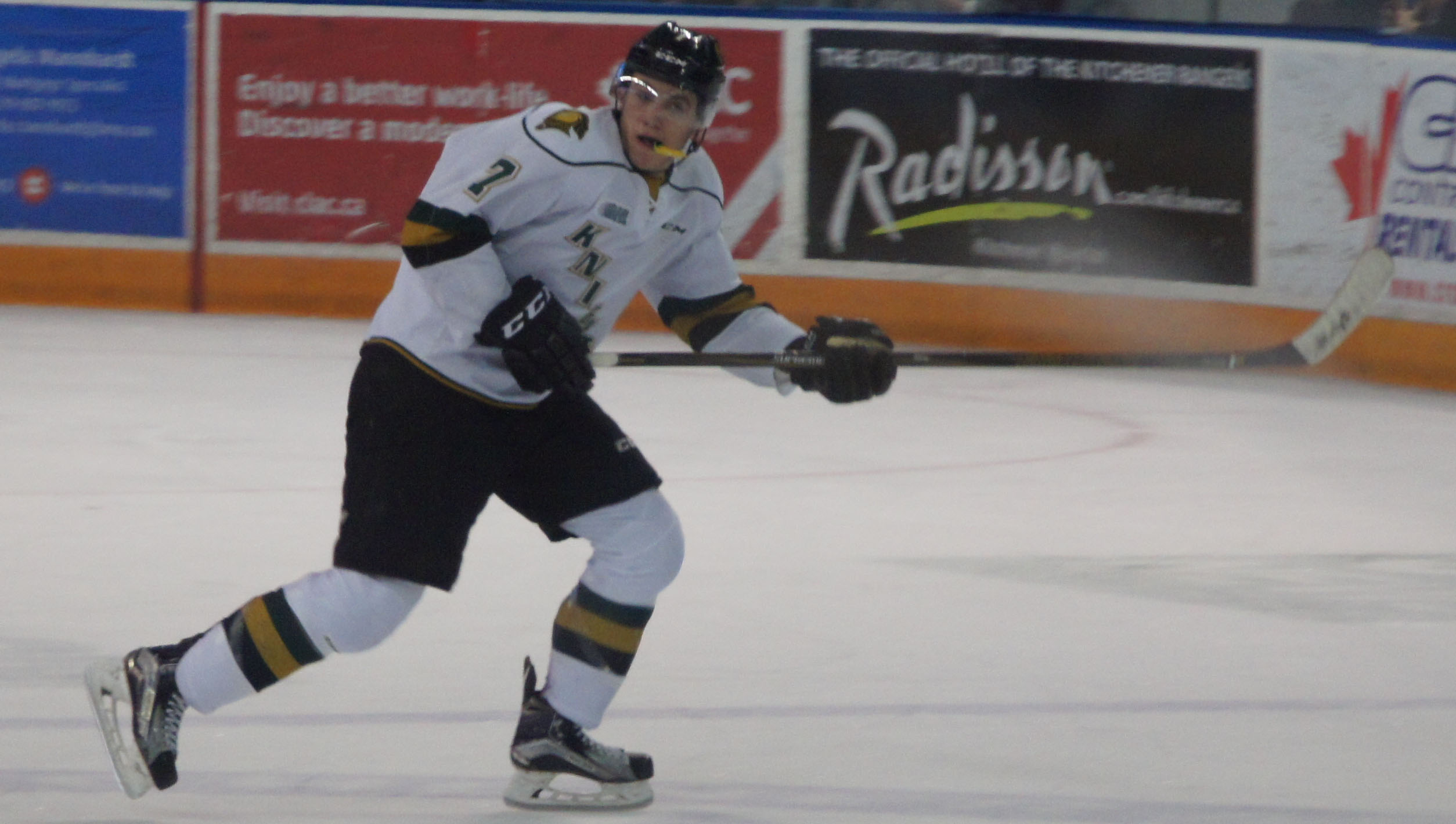 Matthew Tkachuk playing for the London Knights against the Kitchener Rangers in Kitchener on April 14, 2016.